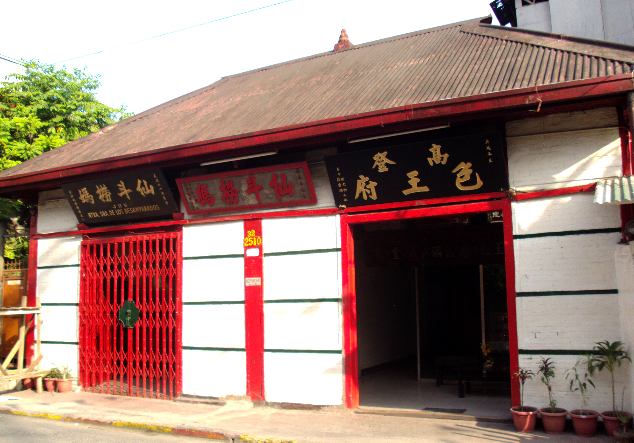 The Old Taoist Temple of Santa Ana, Manila